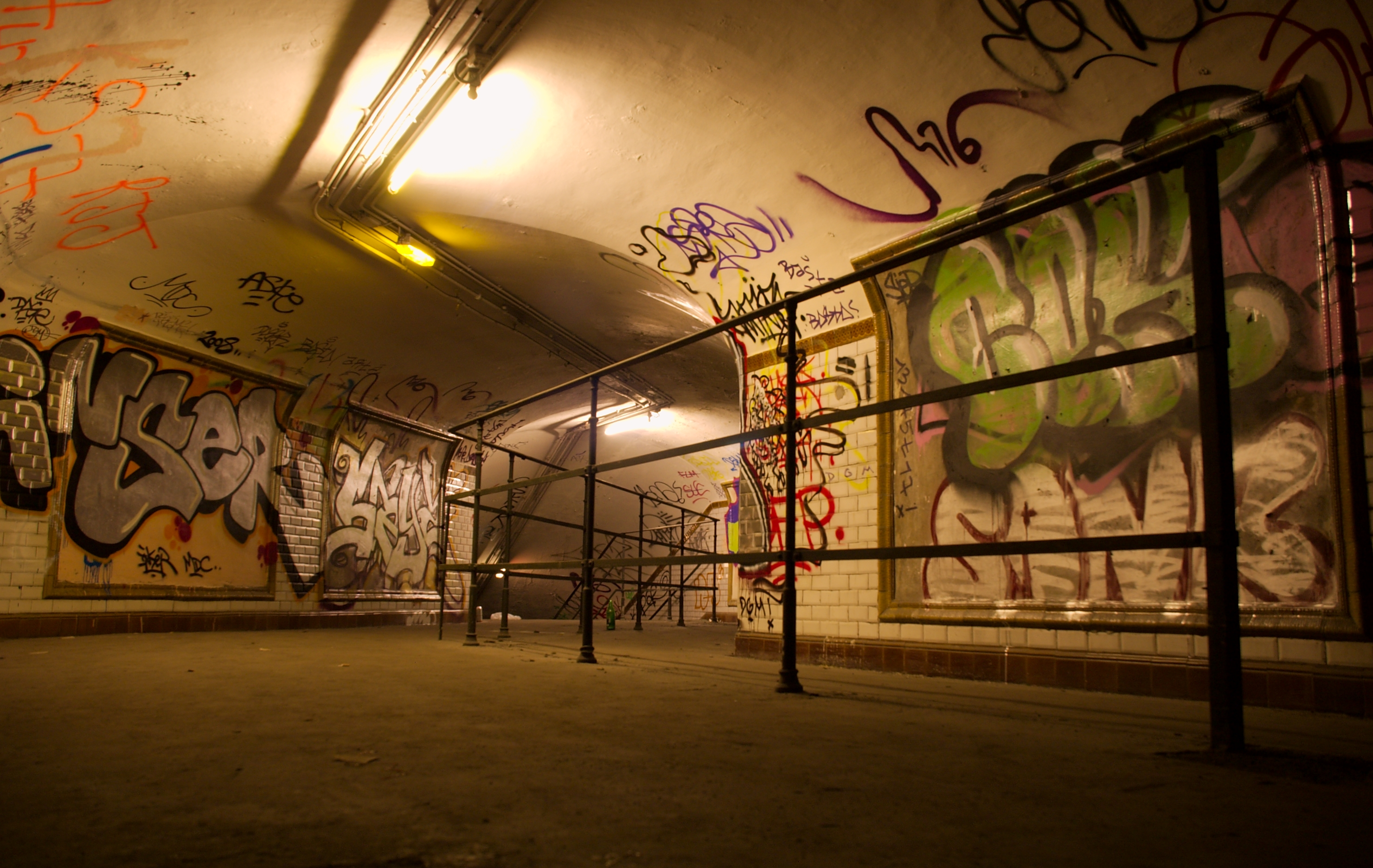 The abandoned Saint-Martin station of the Paris subway.